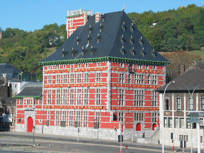 Curtius Museum in Liège, Belgium